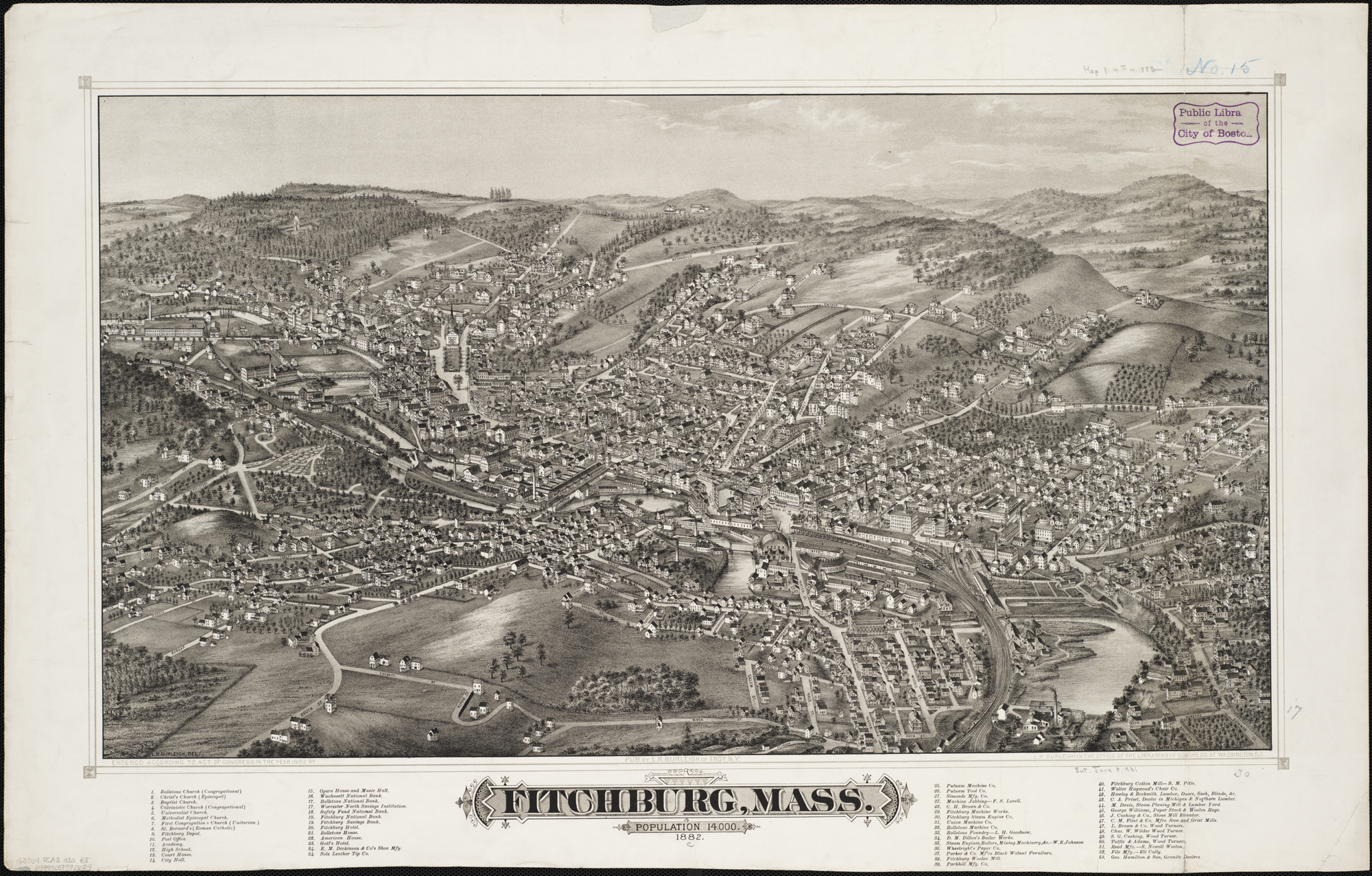 Zoom into this map at . Author: Burleigh, L. R. Publisher: L.R. Burleigh Date: c1882. Location: Fitchburg (Mass.) Scale: Not drawn to scale. Call Number: G3764.F5A3 1882.B8